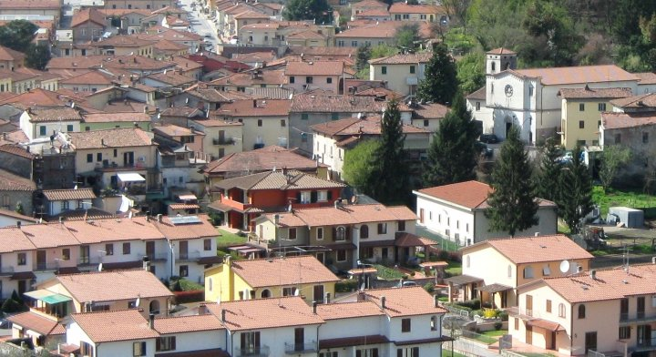 Panorama